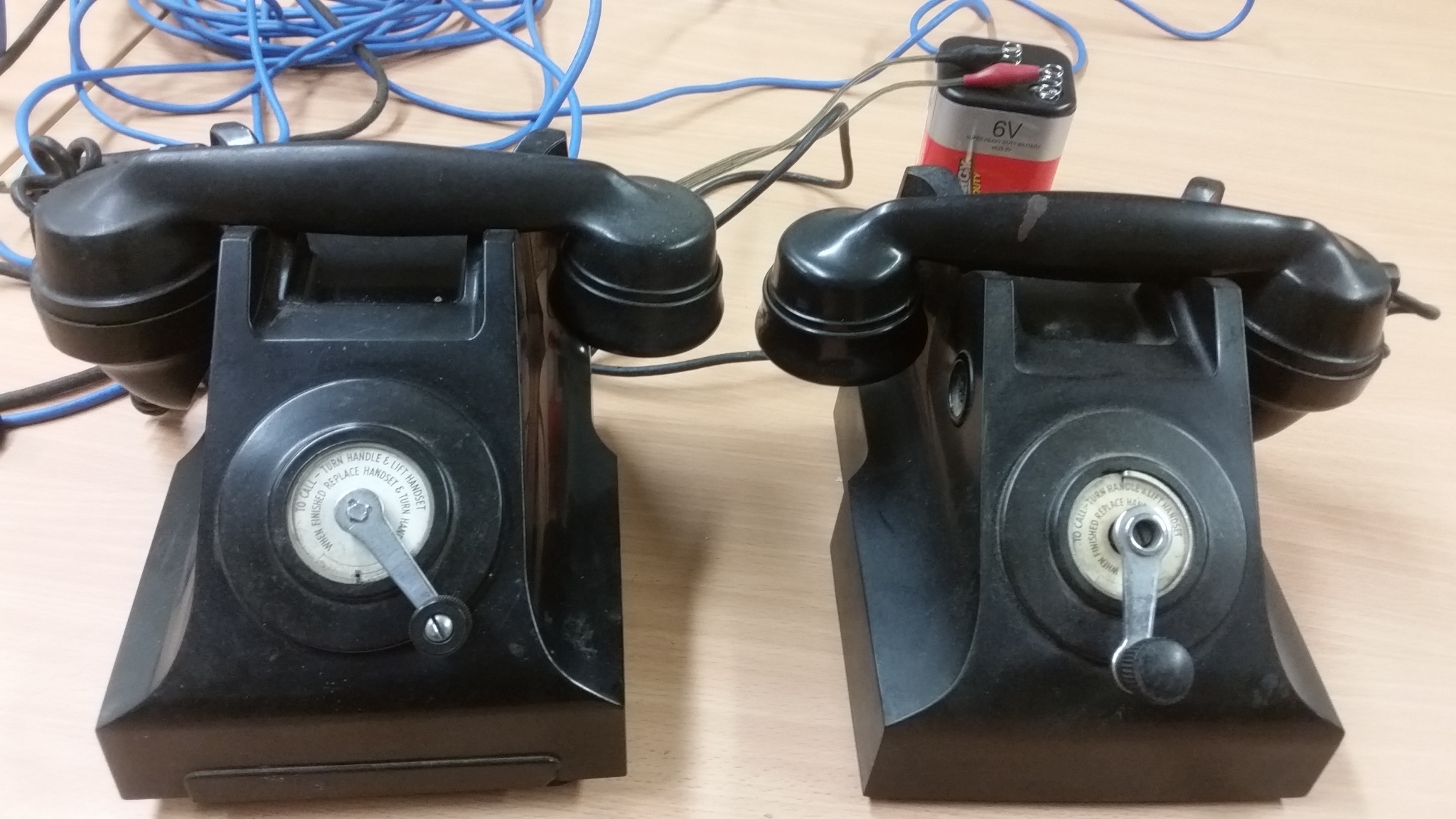 Australia - the previous name of Telstra- Post Master General Telephone -1950(2 devices) require battery for power